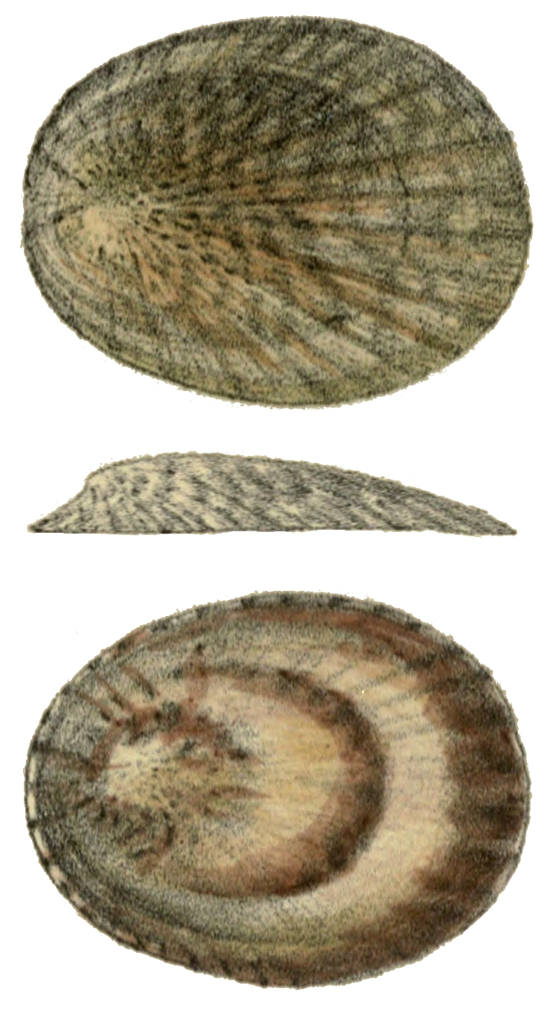 Drawing of the shell of Cellana radians, synonym: Patella radians. Dorsal (apical) view, lateral view (left side) and ventral (apertural) view. Head region is on the left.